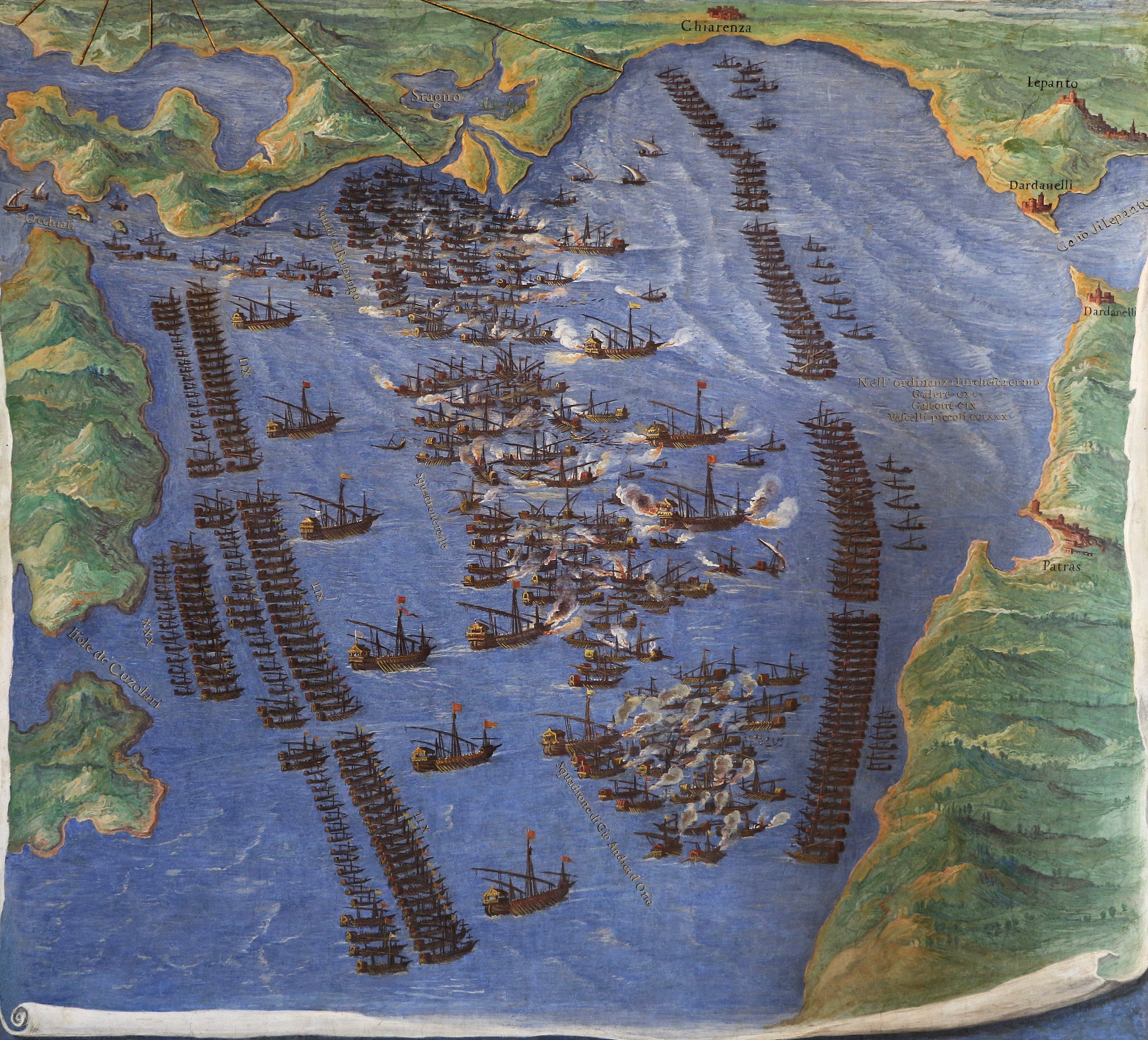 This fresco depicts the Battle of Lepanto, where a combined Christian force crushed the Ottoman Navy - this particular painting occupies a prominent position at one end of the Hall of Maps, in the Vatican Museums, Rome. Please note that the file name is no longer accurate because the original file was overwritten in April 2016 by the upload of a different image by User:Alonso de Mendoza